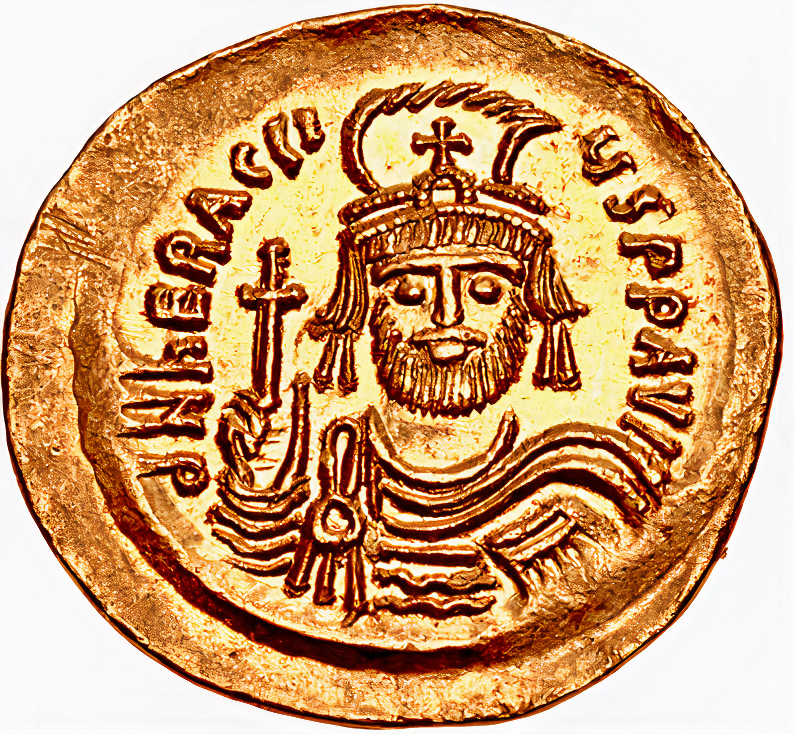 Heraclius. 610-641. AV Solidus (21mm, 4.42 g, 6h). Constantinople mint, 5th officina. Struck 610-613. Helmeted and cuirassed facing bust, holding cross